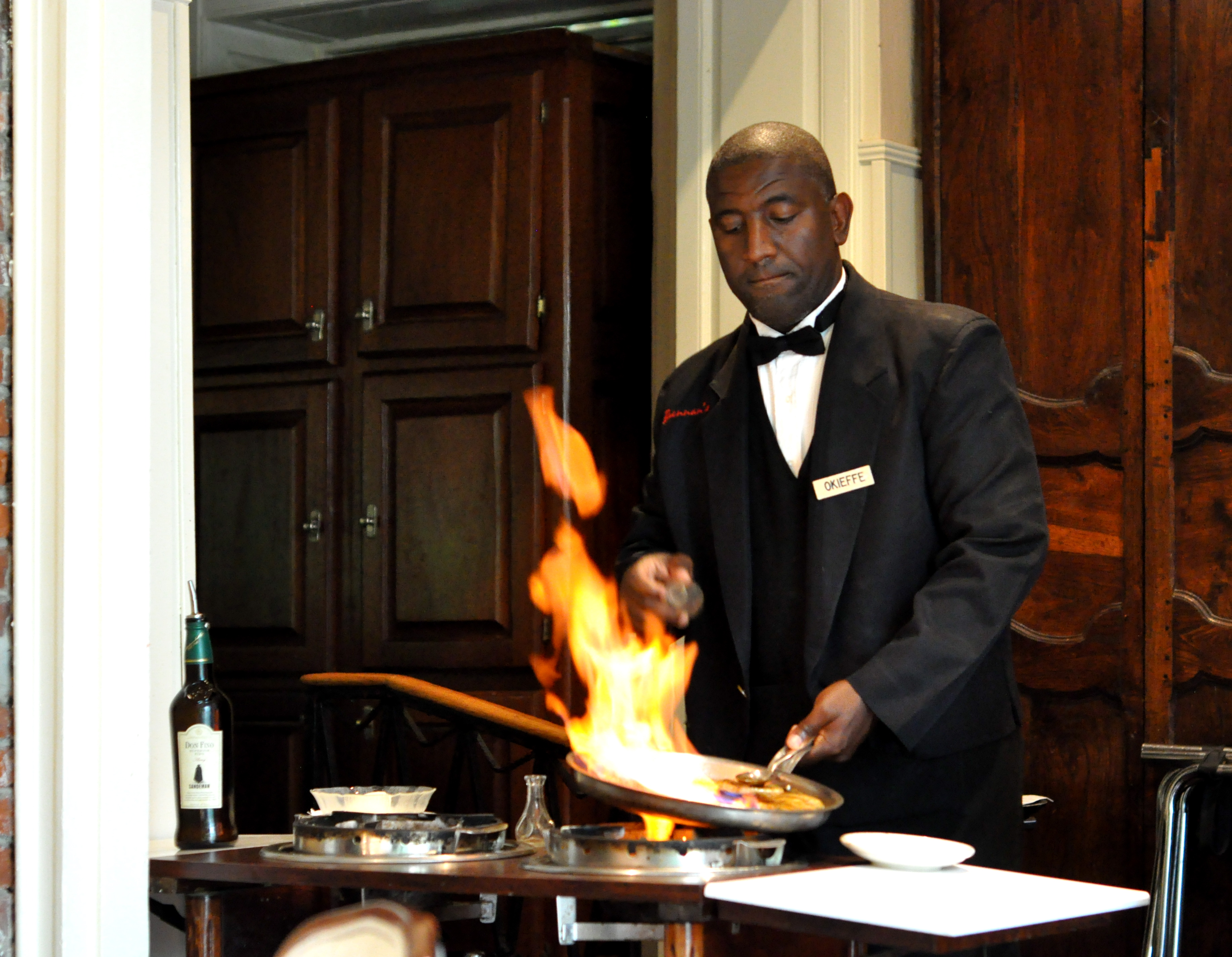 Brennan's, New Orleans. Preparing Bananas Foster Flambé.